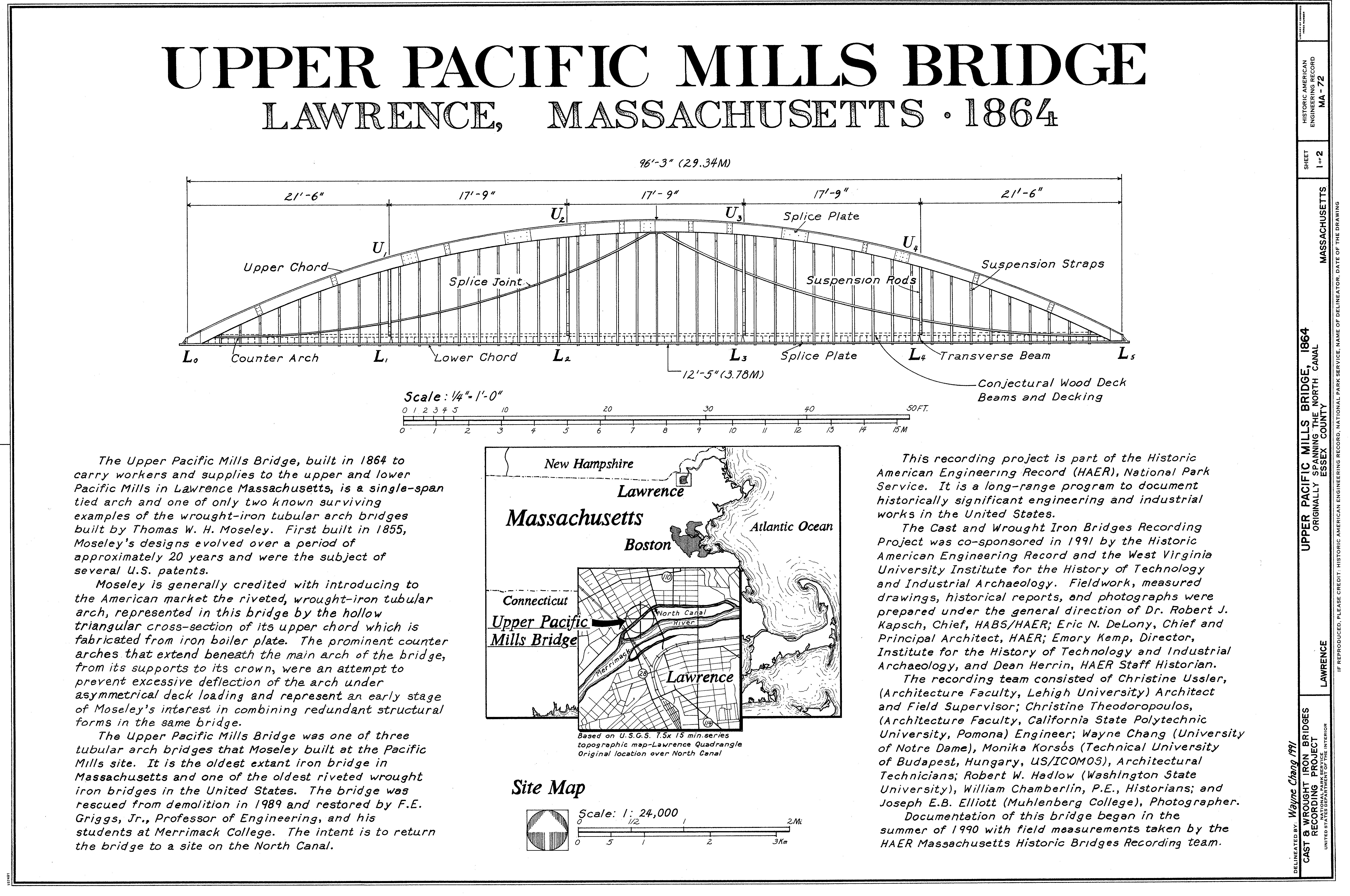 Moseley Wrought Iron Arch Bridge, built 1864. Originally located in Lawrence, Massachusetts, but moved to Merrimack College campus, North Andover, Massachusetts, USA. This is a National Historic Civil Engineering Landmark now listed on the National Register of Historic Places as the oldest iron bridge in Massachusetts, and one of the oldest such bridges in the United States.